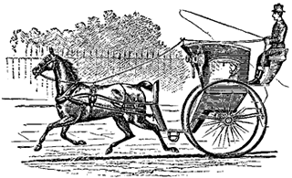 Hansom cab, engraving, 3rd quarter 19th cent